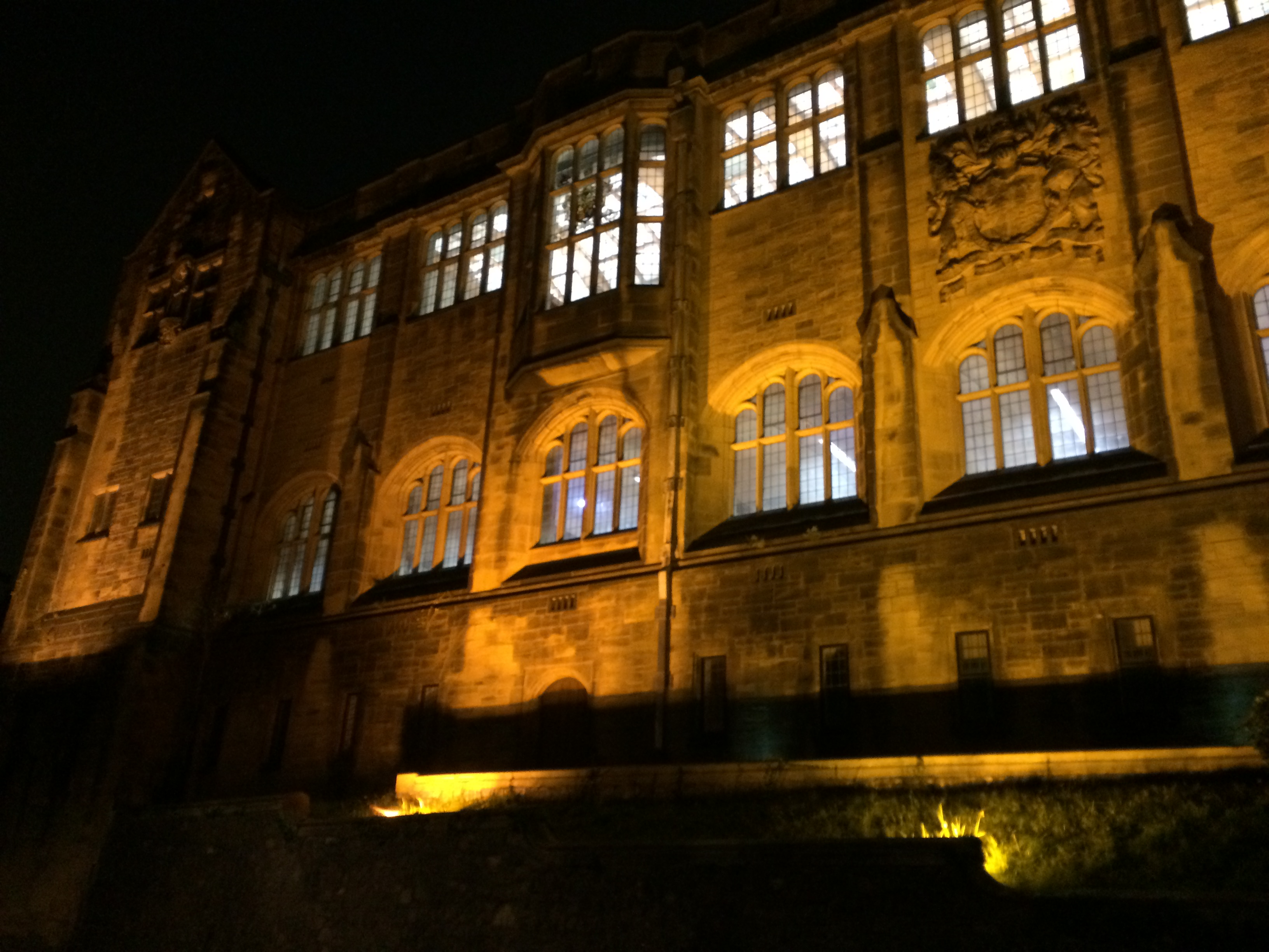 Bangor University at night